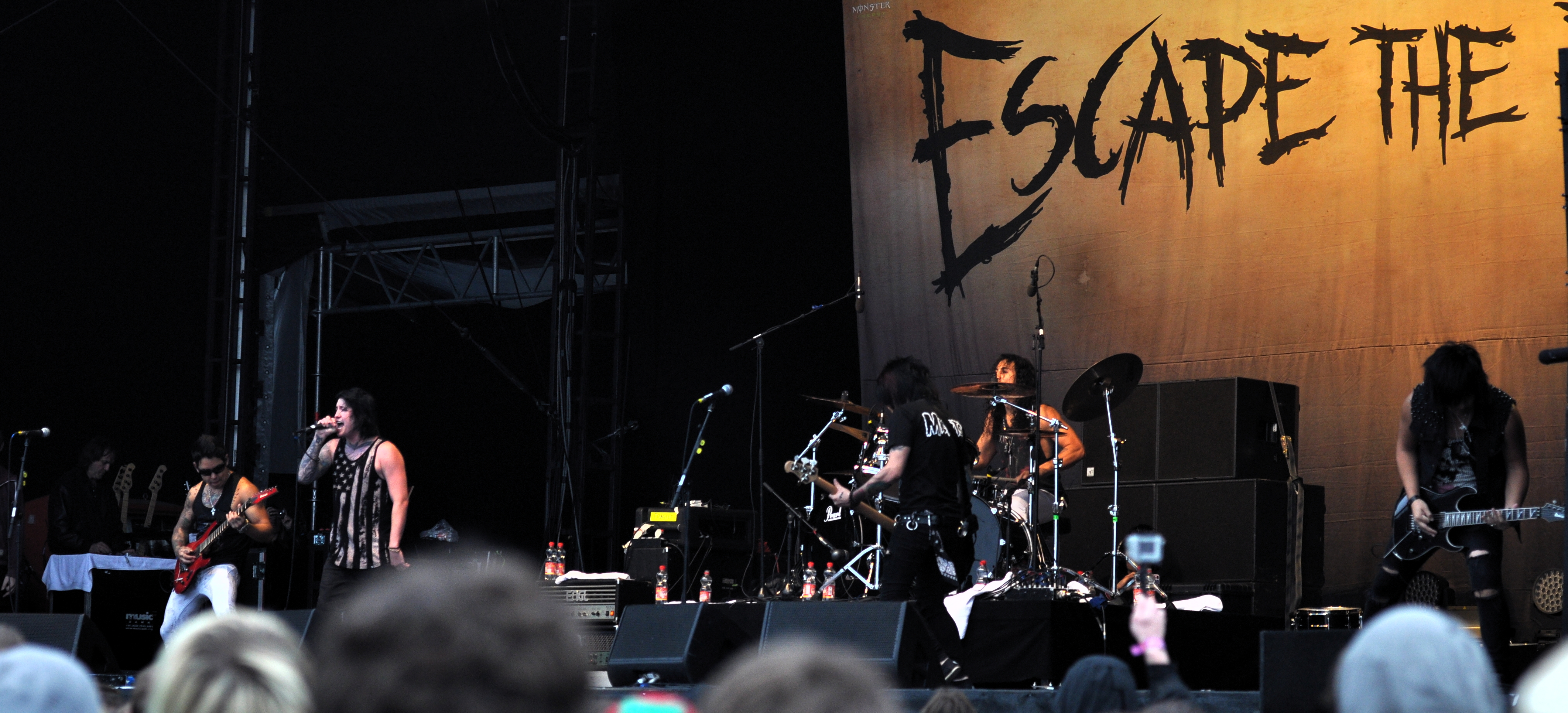 Escape the Fate at Rock am Ring 2013